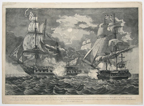 A Representation of the Engagement between His Majesty's Frigate the Indefatigable and the French Frigate La Virginie, at Midnight, on the 20th of April 1796. about 40 Leagues S.W. of the Lizard, when after a gallant Action of one Hour and 45 Minutes, this favourite Frigate, which was considered the finest Ship and fastest Sailer in the French Navy struck to Sr. Edwd. Pellew